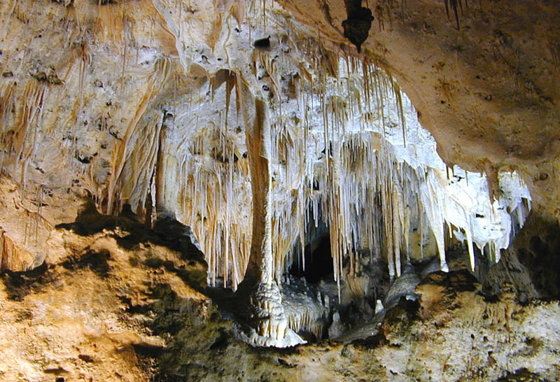 Picture of interior cave formations at Carlsbad Caverns National Park, New Mexico taken in June 2003 by Eric Guinther (Marshman at en.wikipedia) and donated to Wikipedia project by the photographer.